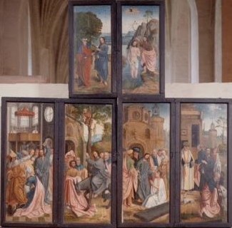 Christ in the Temple in Debate with Pharisees about the Tribute to Caesar, The Raising of Lazarus, The Baptism of Christ in the River Jordan (exterior left wings); The Entry into Jerusalem, The Purification of the Temple, The Story of the Temptation of Christ in the Wilderness (exterior right wings)